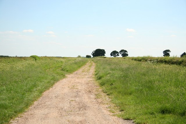 Ermine Street The line of Roman Road, Ermine Street crossing Boothby Graffoe Heath